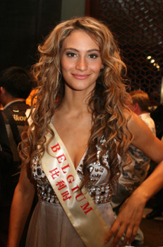 Miss Belgium 2007 Halima Chehaima in Miss World 07, Sanya, China